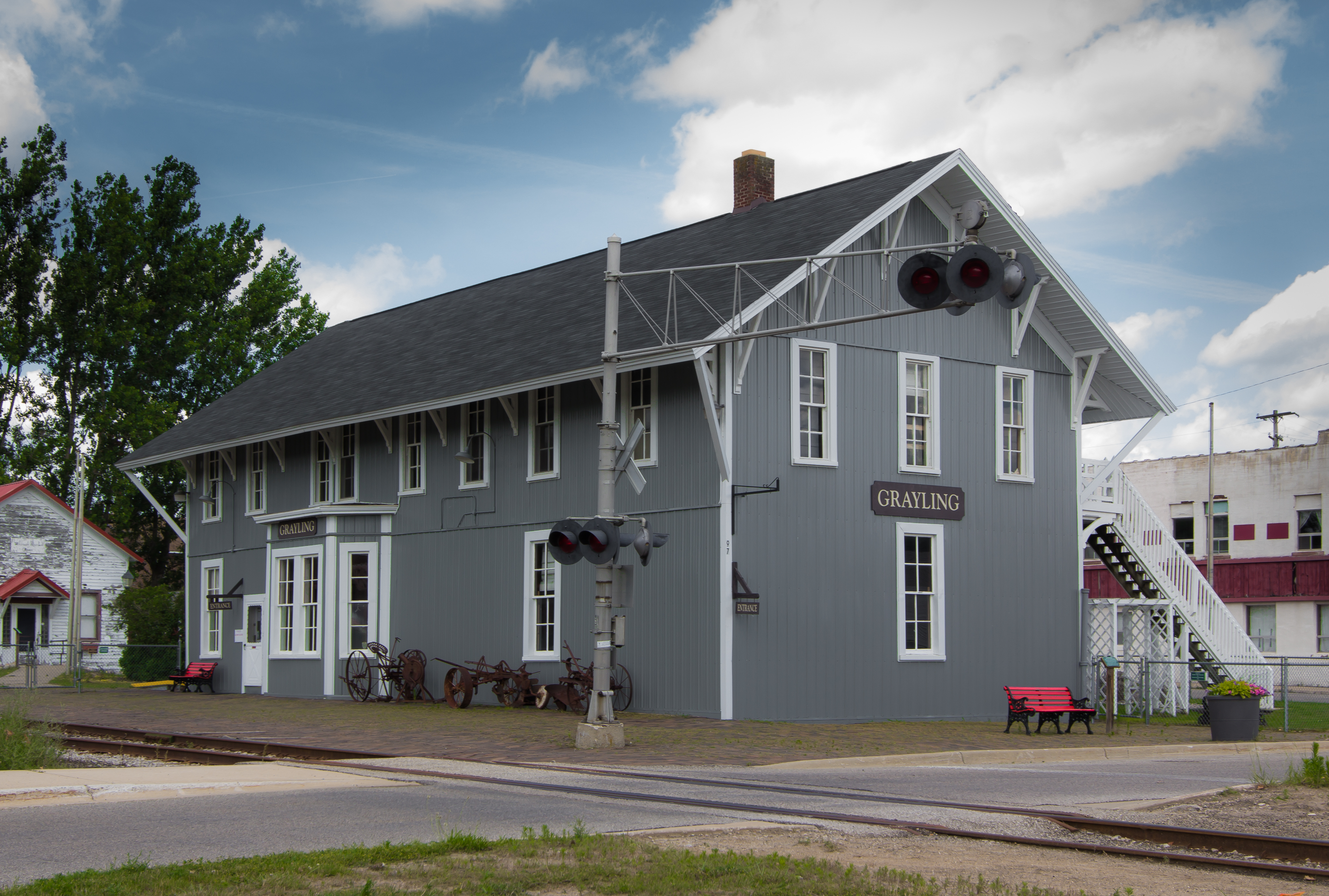 Michigan Central Railroad-Grayling